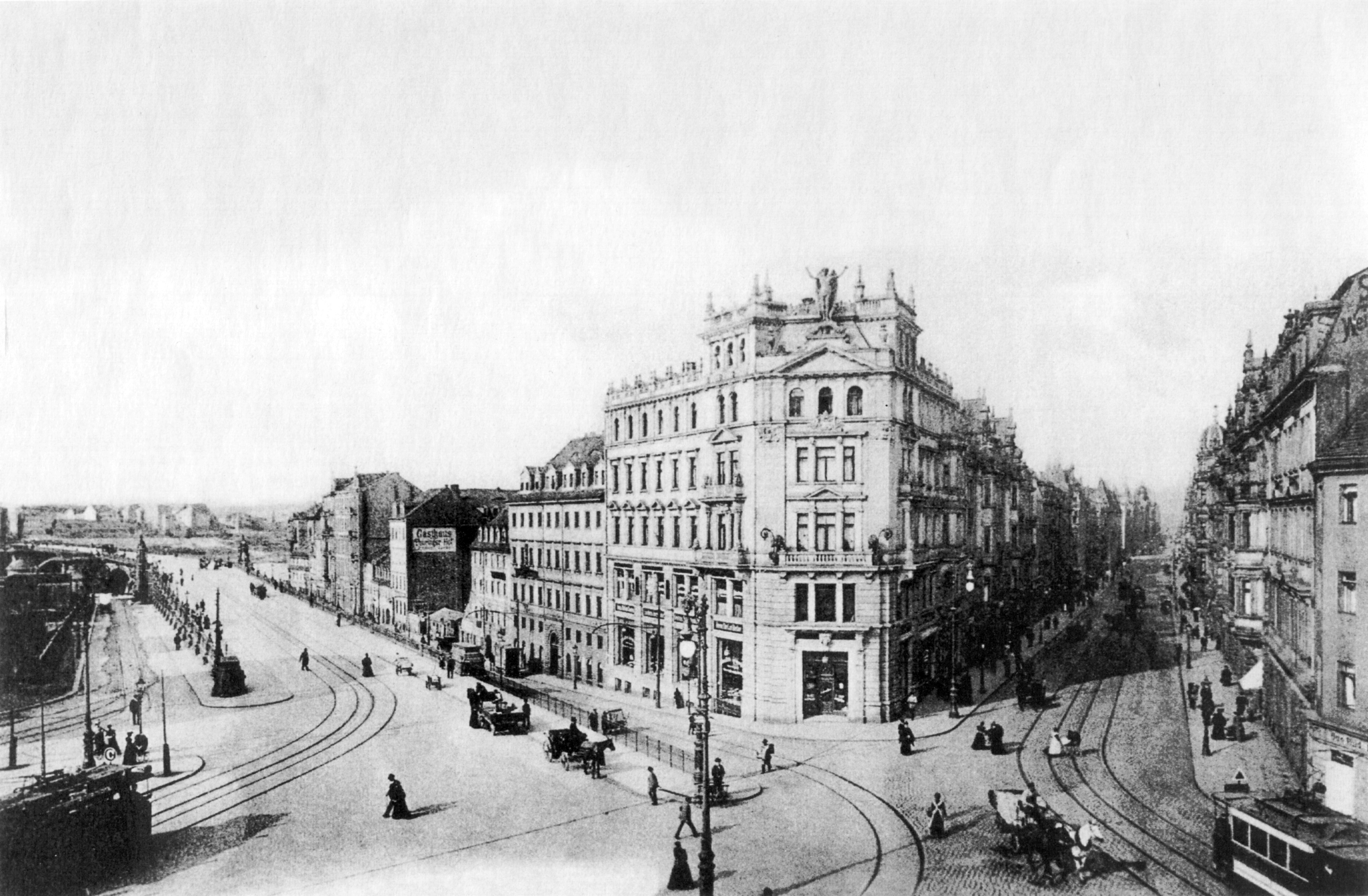 Dresden (Saxony, Germany) - Amalienplatz with Carolabrücke and Marschallstraße, around 1900